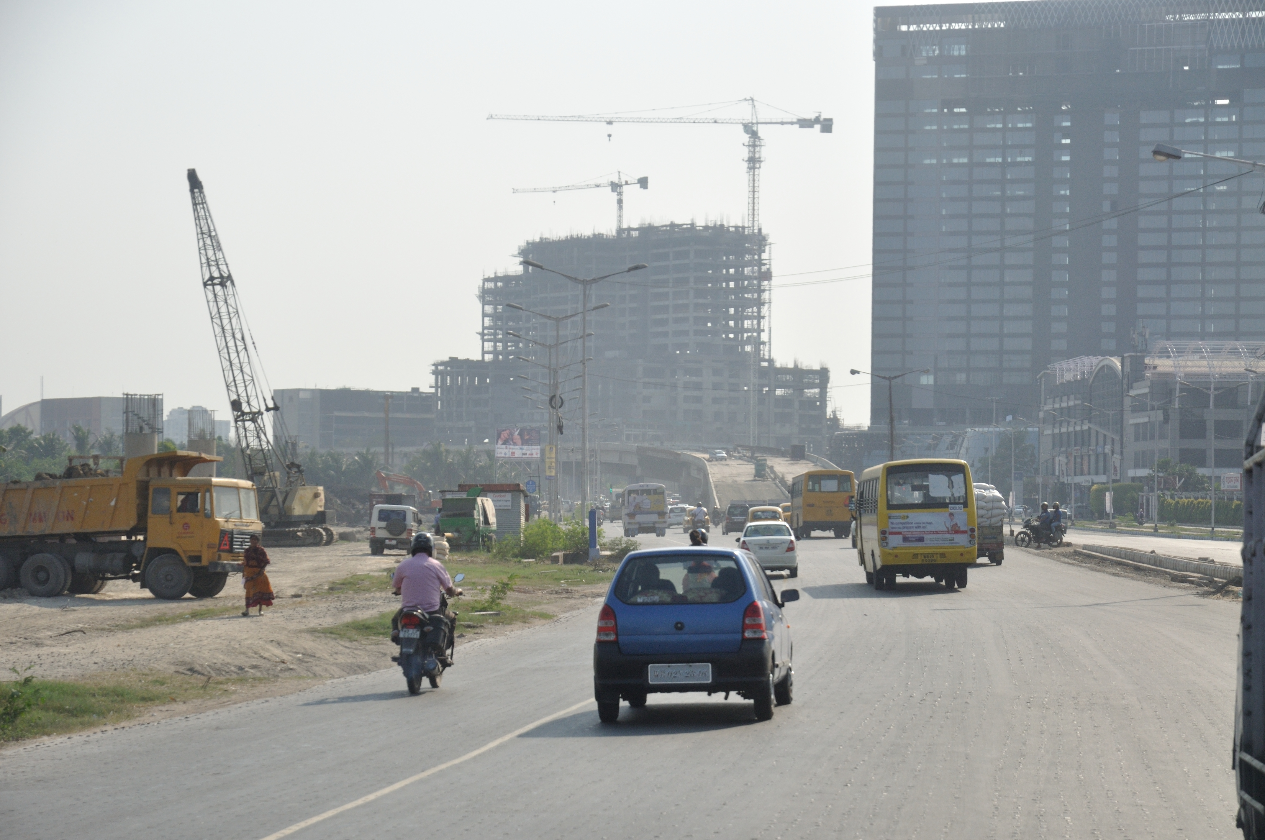 photographed in Kolkata.